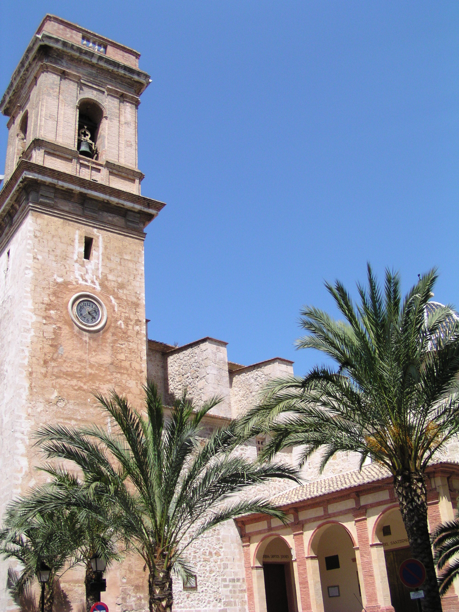 Santos Juanes Parochial Church